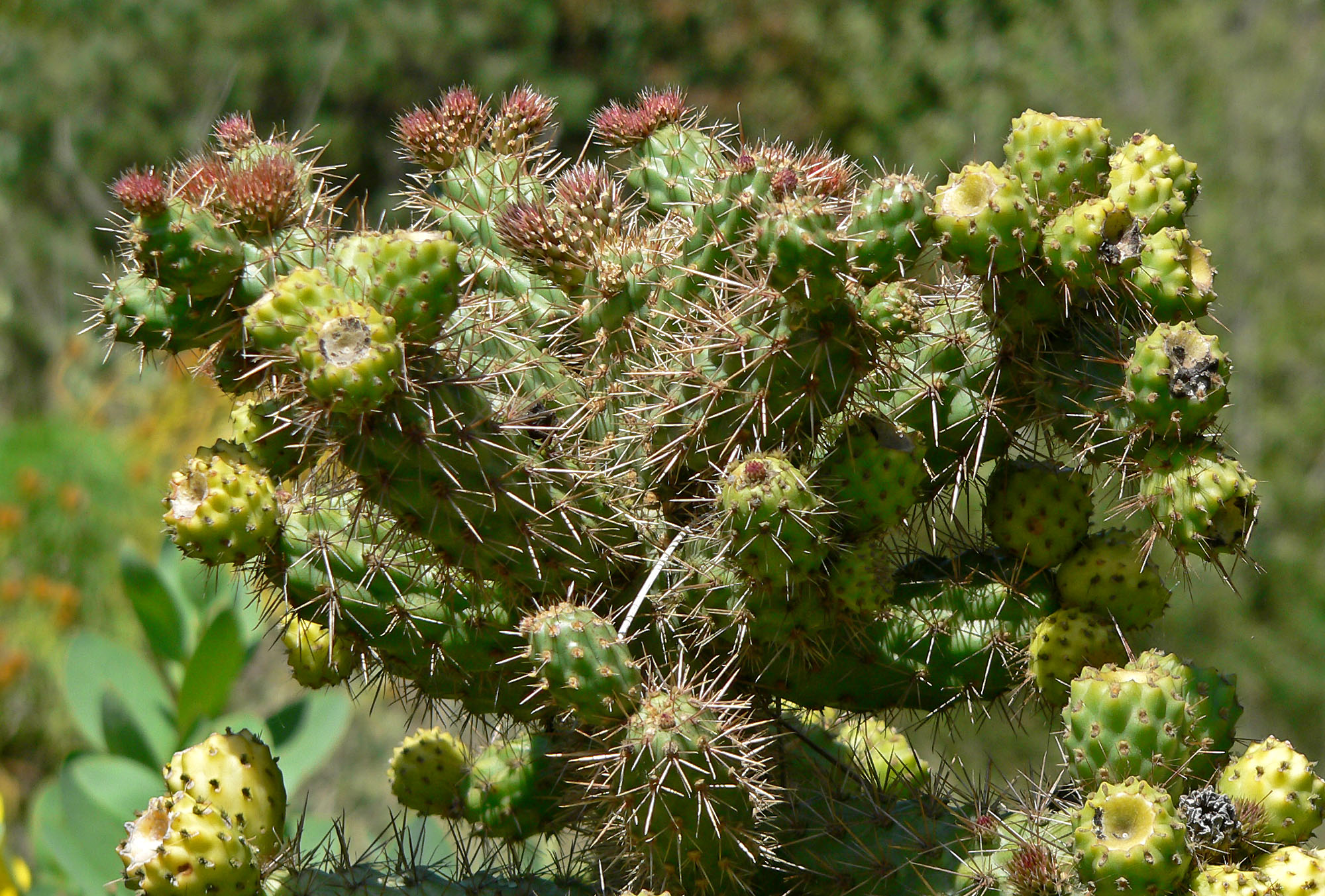 Cylindropuntia prolifera at the University of California Botanical Garden, Berkeley, California